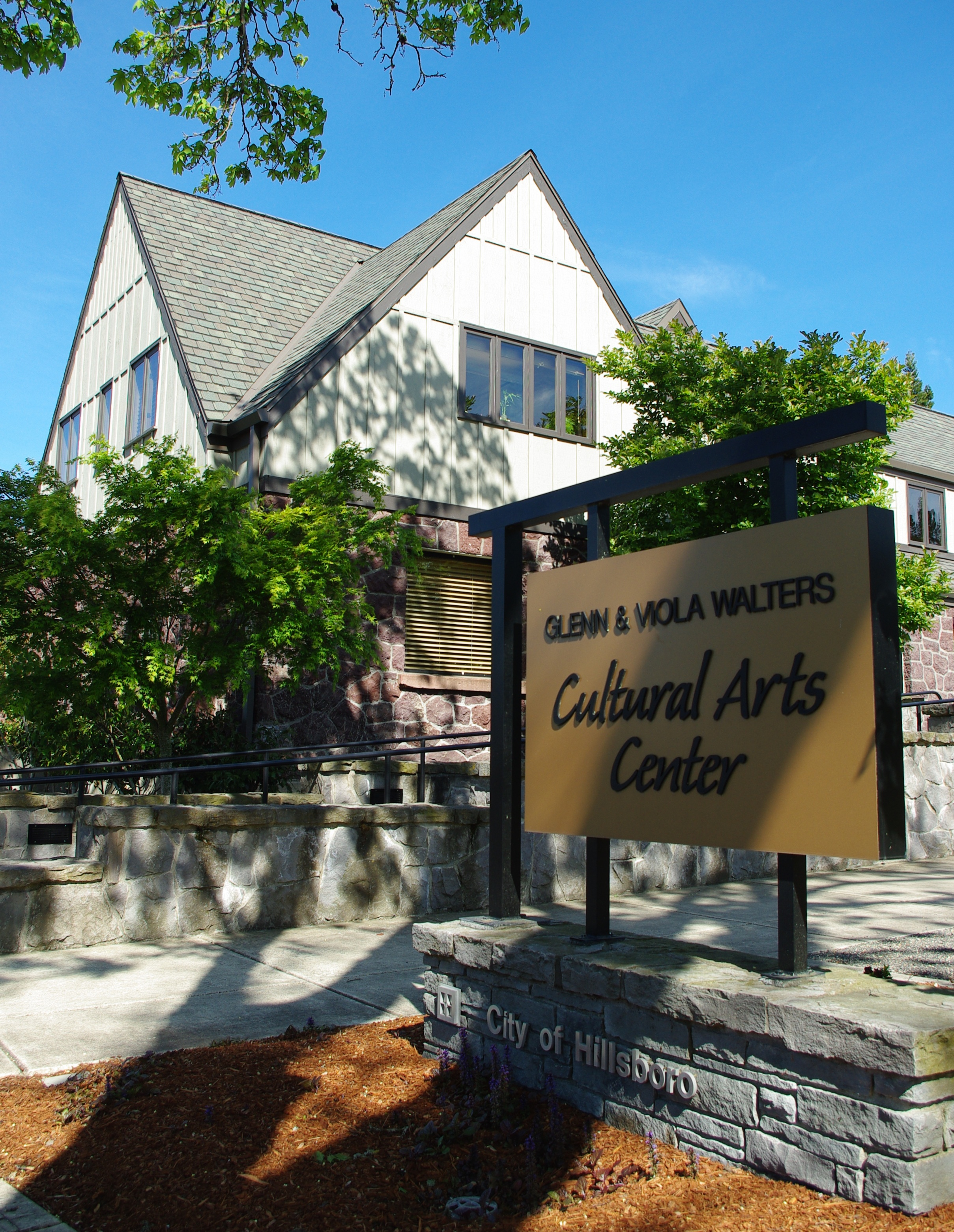 Glenn & Viola Walters Cultural Arts Center in Hillsboro, Oregon. Sign on the southeast corner of the building.